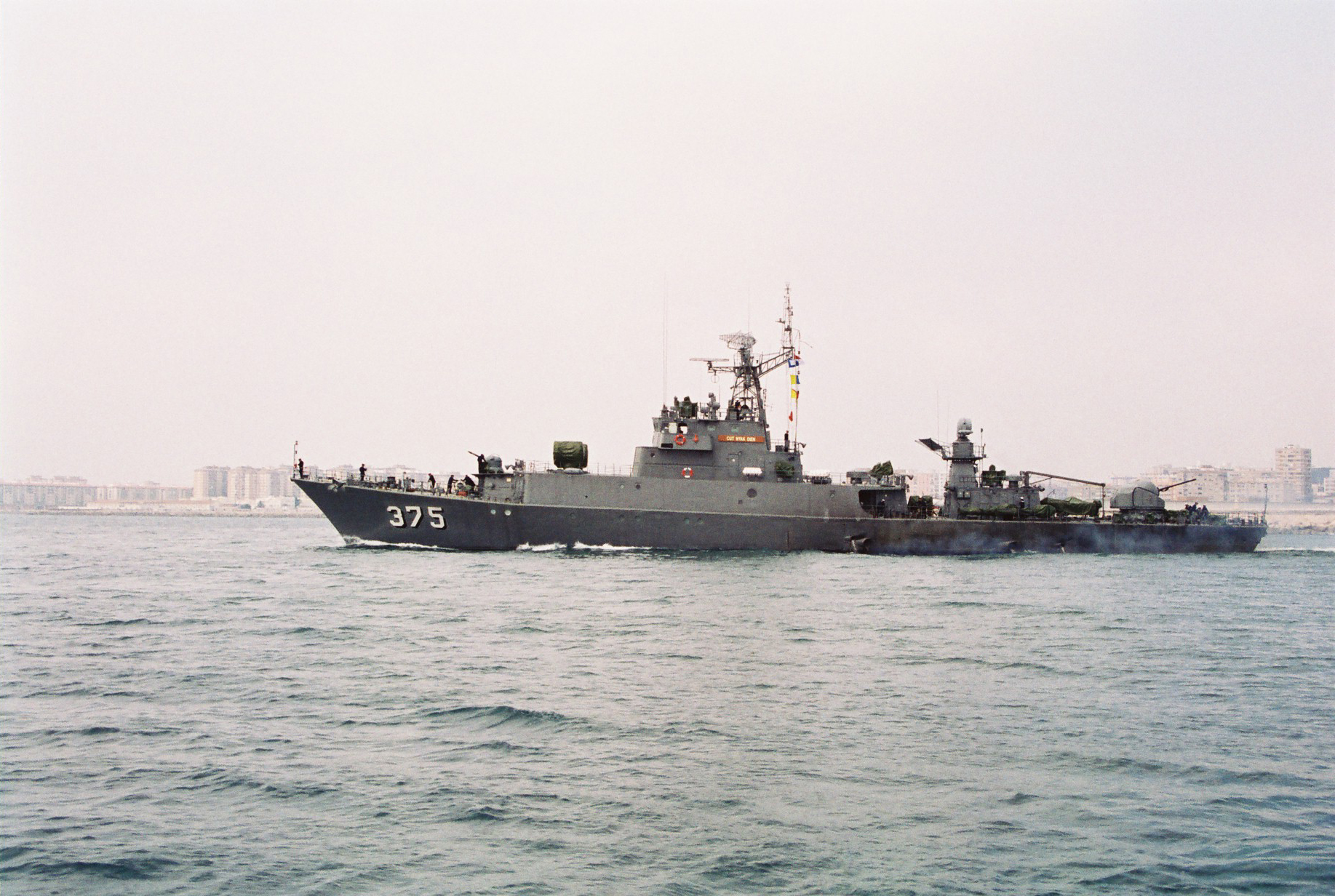 Indonesian corvette Cut Nyak Dien , former DDR Lübz, in Málaga, 14th March 1994.